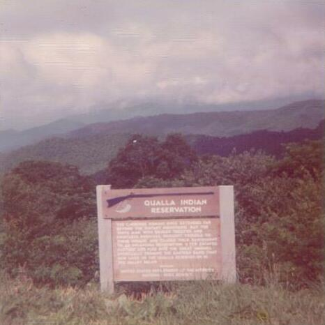 I took photo with Kodak camera in the North Carolina portion of the Great Smokies in 1975.